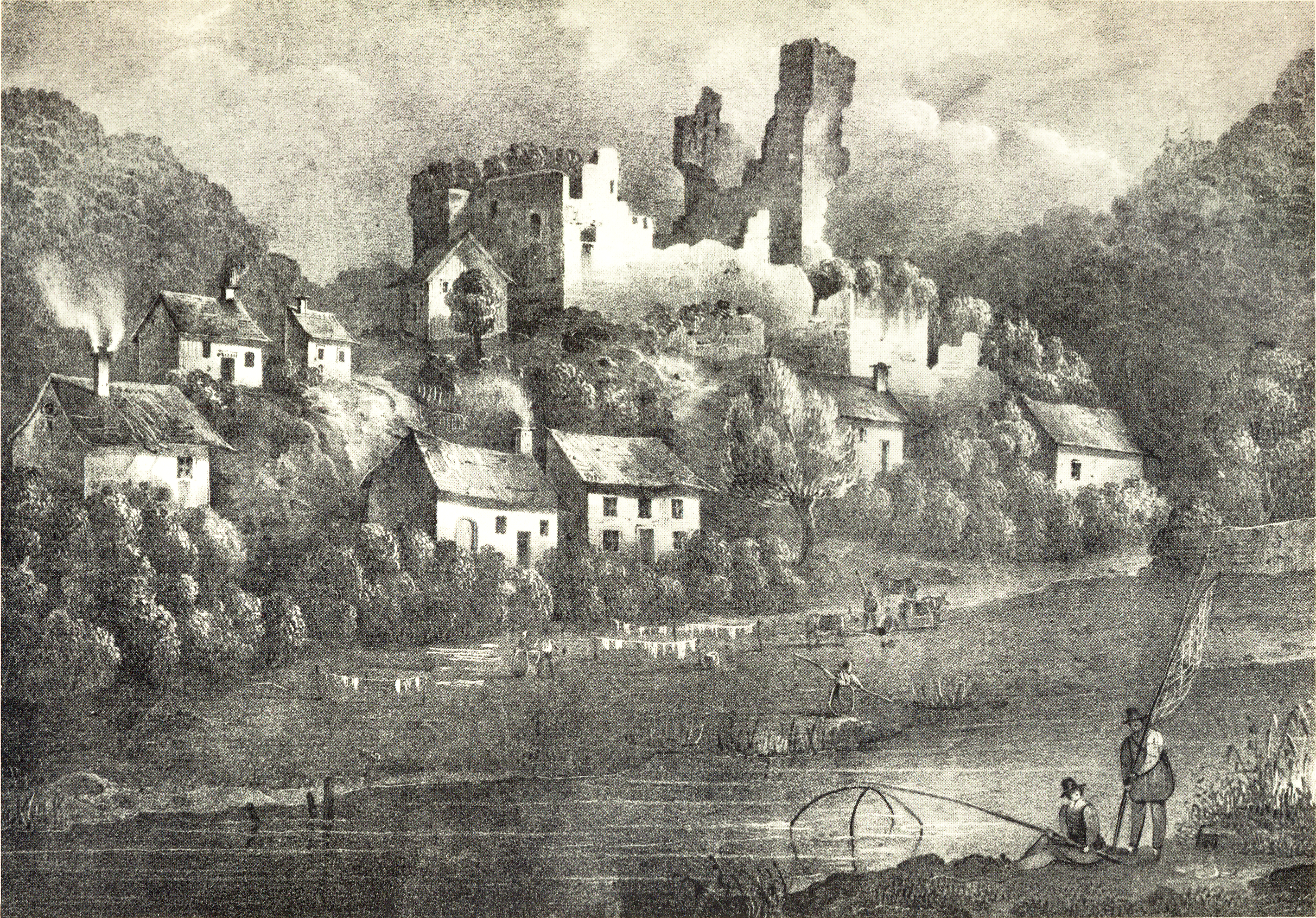 Vue on the ruins of the castle of Hesperange, Luxembourg. Drawing.